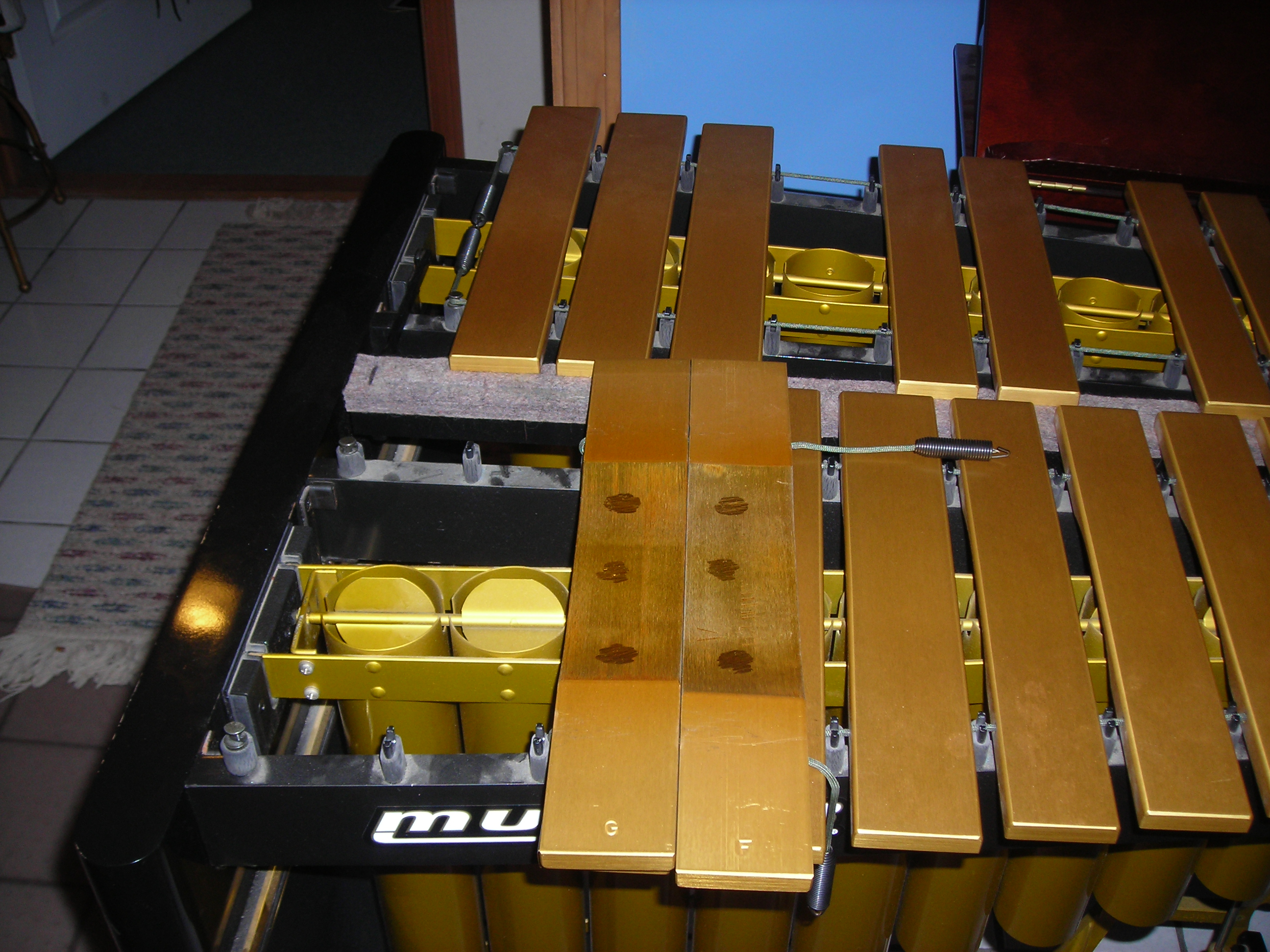 Cutaway view of vibraphone internals